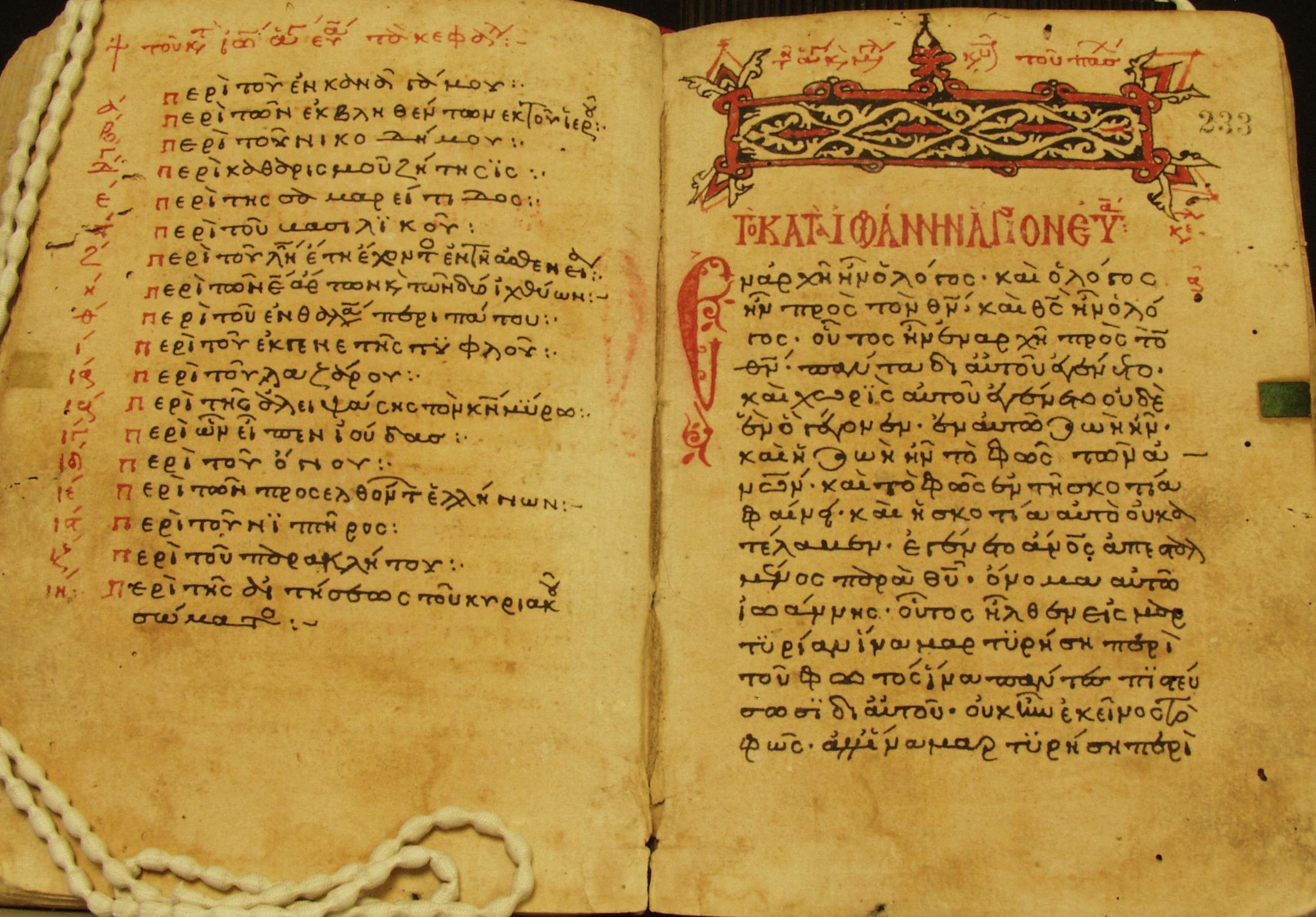 the list of the κεφαλαια to the Gospel of John and the first page of the Gospel of John, the decorated headpiece, the decorated initial